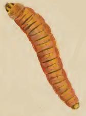 Stainton’s Natural History of the Tineina (1855–1873): Dialectica imperialella